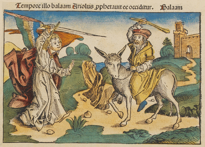 Balaam, the Angel and the Ass; Woodcut from the Nuremberg Chronicle